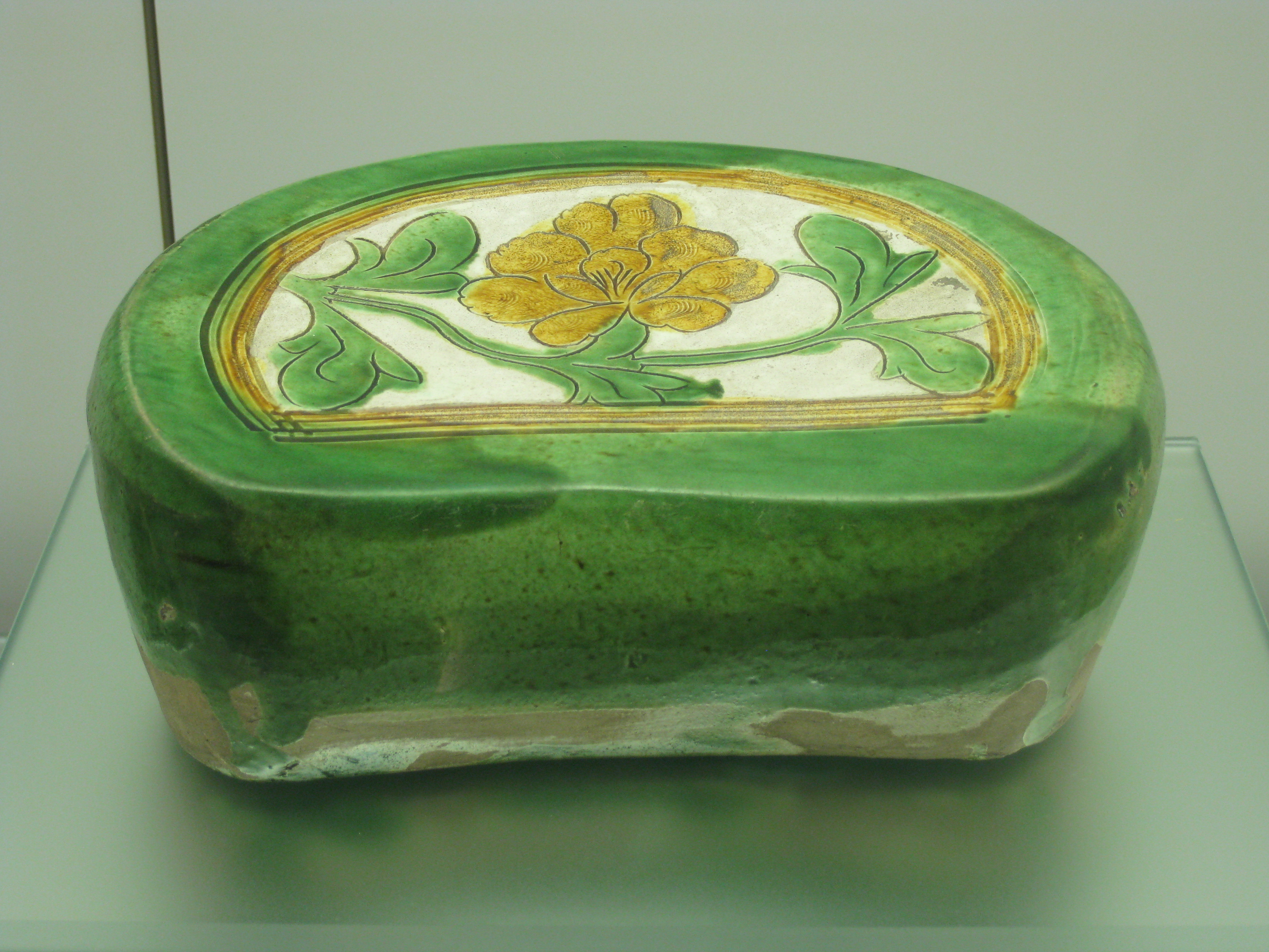 Exhibits in Hong Kong Museum of Art